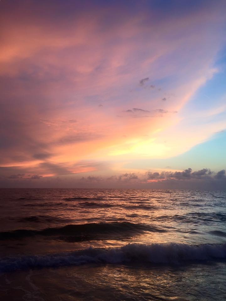 Sunset at Clearwater Beach